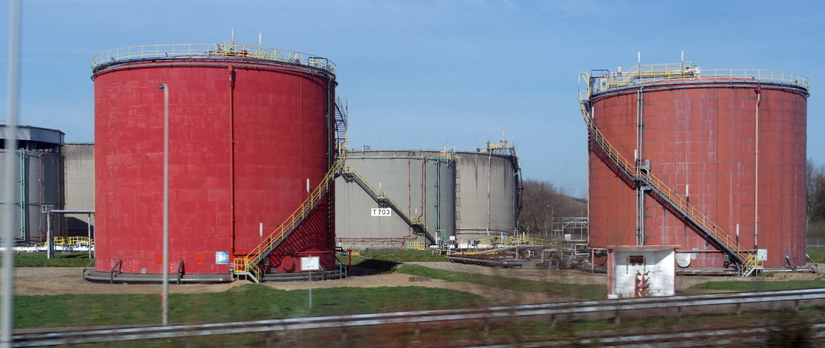 Geleen, the Netherlands. View from the train of SABIC plant at Chemelot industrial park.